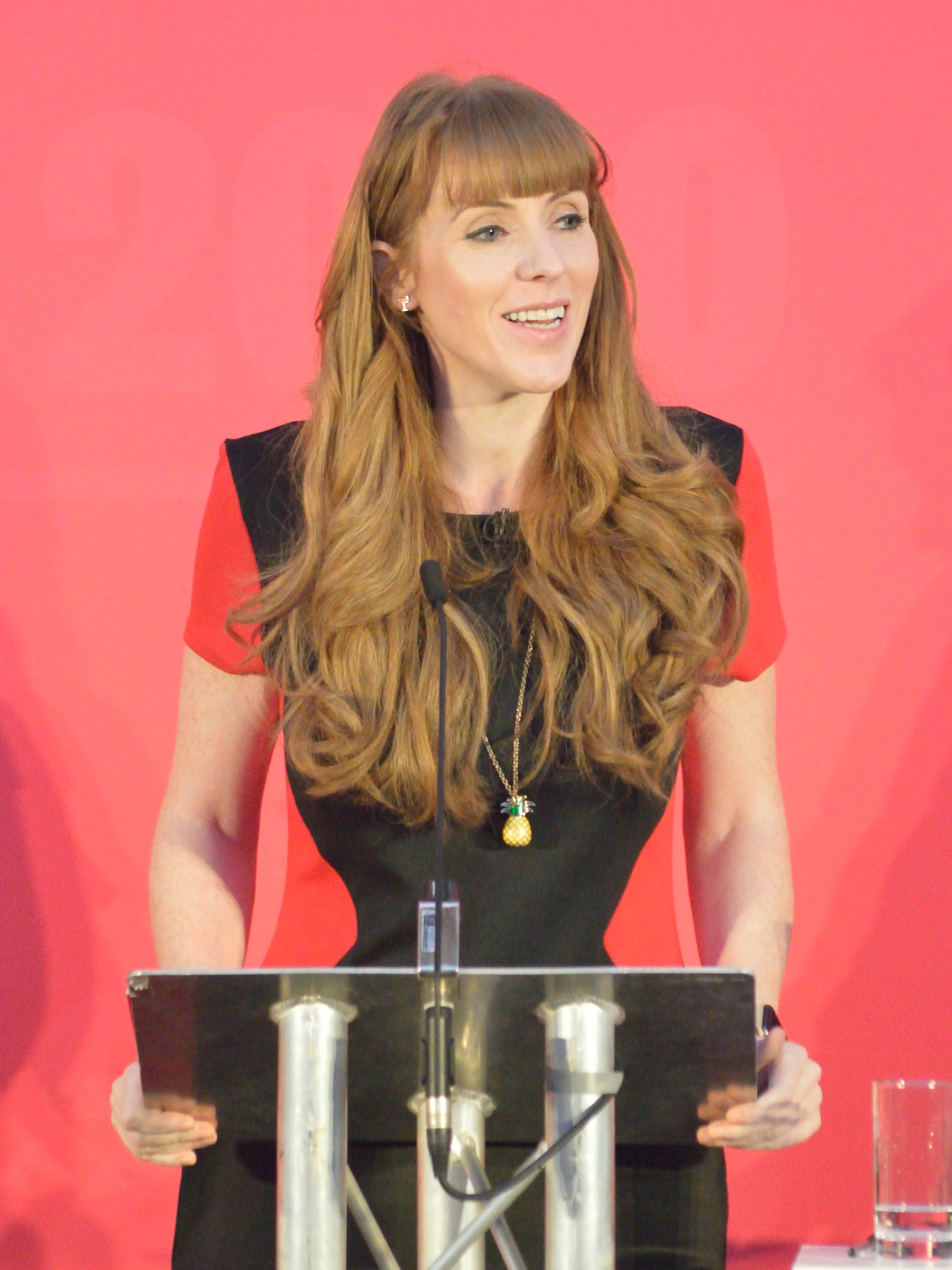 Angela Rayner speaking at the 2020 Labour Party deputy leadership election hustings in Bristol on the afternoon of Saturday 1 February 2020, in the Ashton Gate Stadium Lansdown Stand.